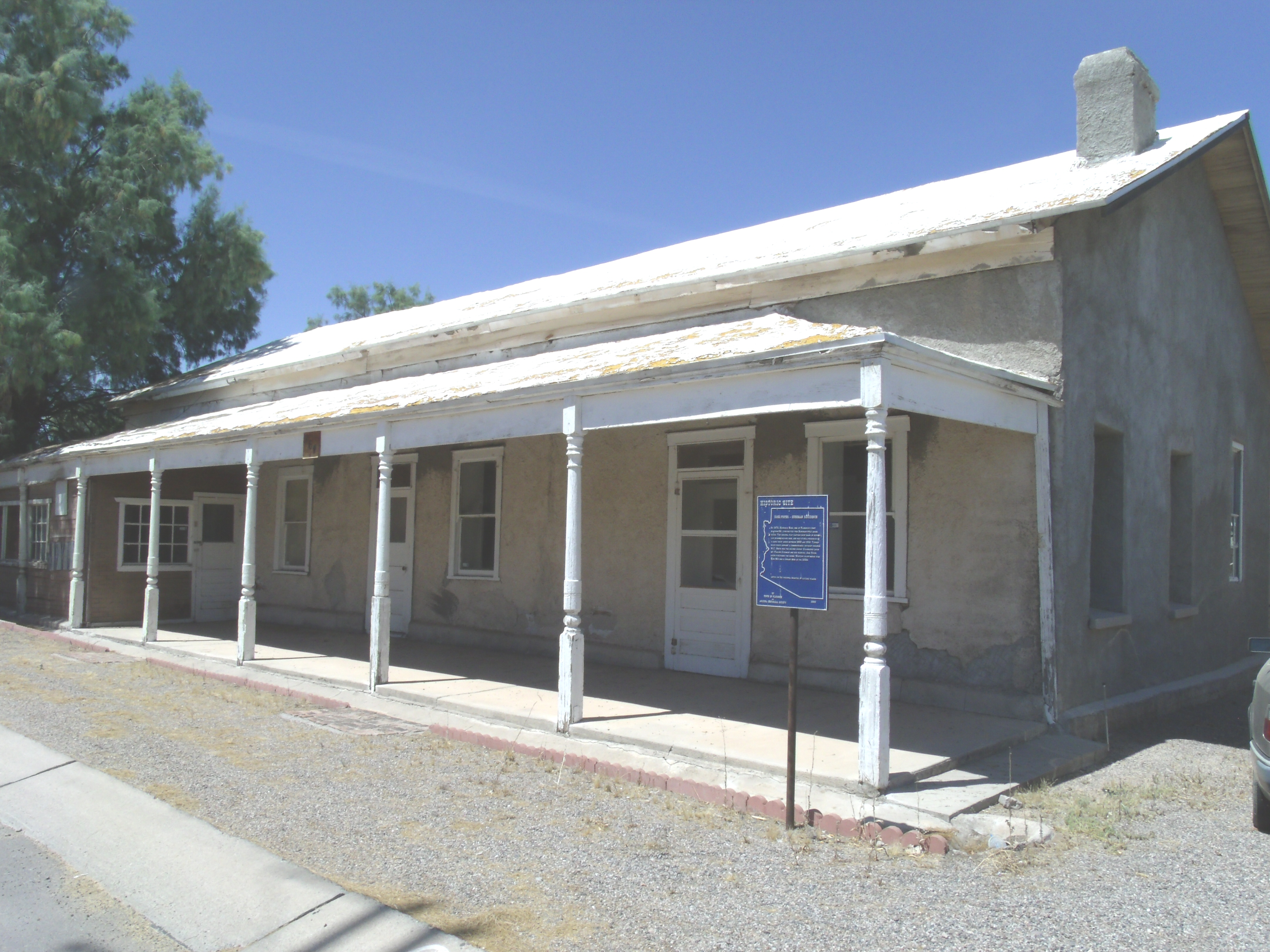 The Ross/ Fryer-Cushman House was built in 1876 and is located in 364 N. Grant St. in Florence, Arizona . Roderick Ross, one of Florence's first blacksmiths, W.C. Smith was the second owner. Pauline Cushman (born Harriet Wood), an American actress and a spy for the Union Army during the American Civil War and her husband Jere Fryer, later purchased the house. Tom Mix was a tenant there in the 1930s. Listed as Historic by the Historic District Advisory Commission.